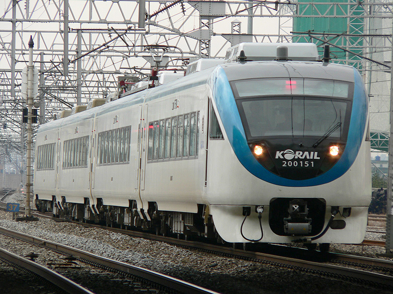 KORAIL EMU 'TEC'(Trunkline Electric Car)